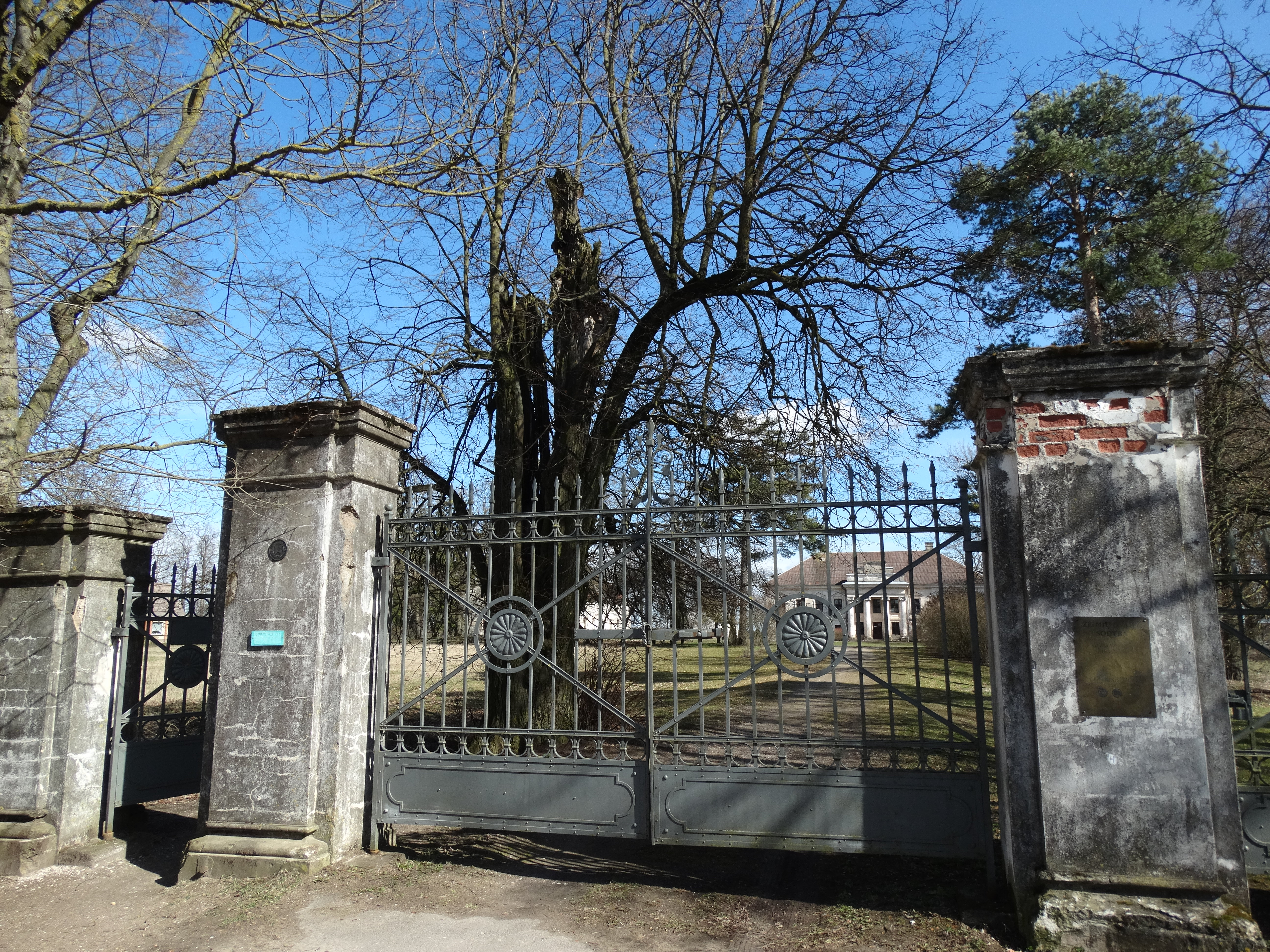 Žeimiai manor, park, Jonava district, Lithuania